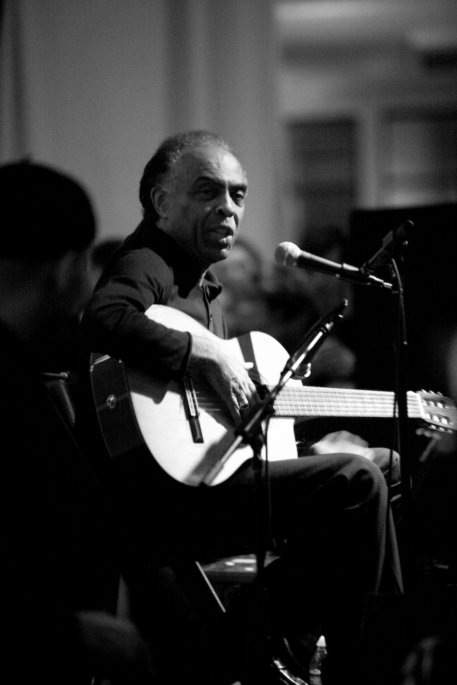 An image of Brazilian musician Gilberto Gil with his guitar.